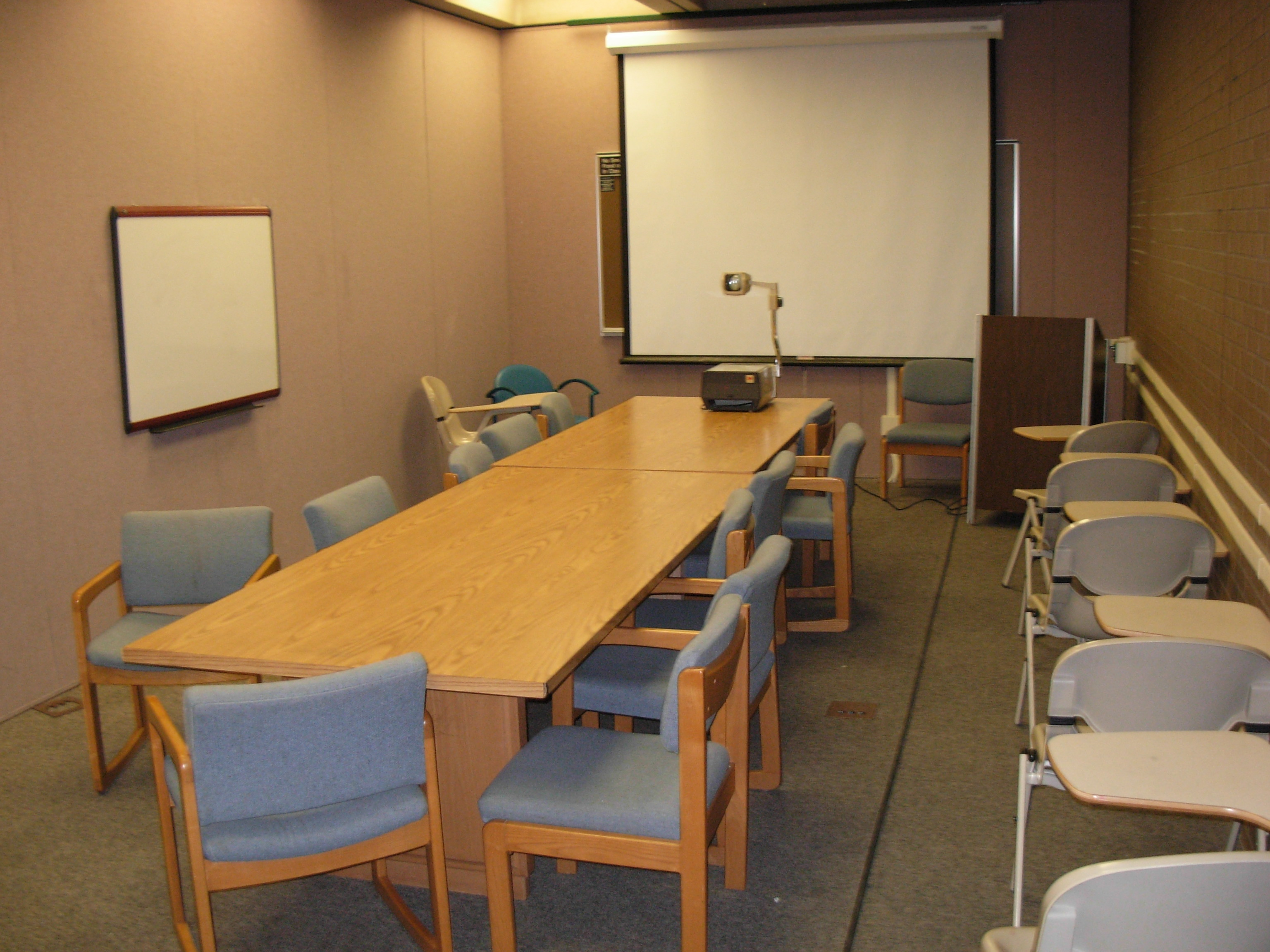 Classroom, University of Pittsburgh (WWPH, 2nd floor). Photo by myself.